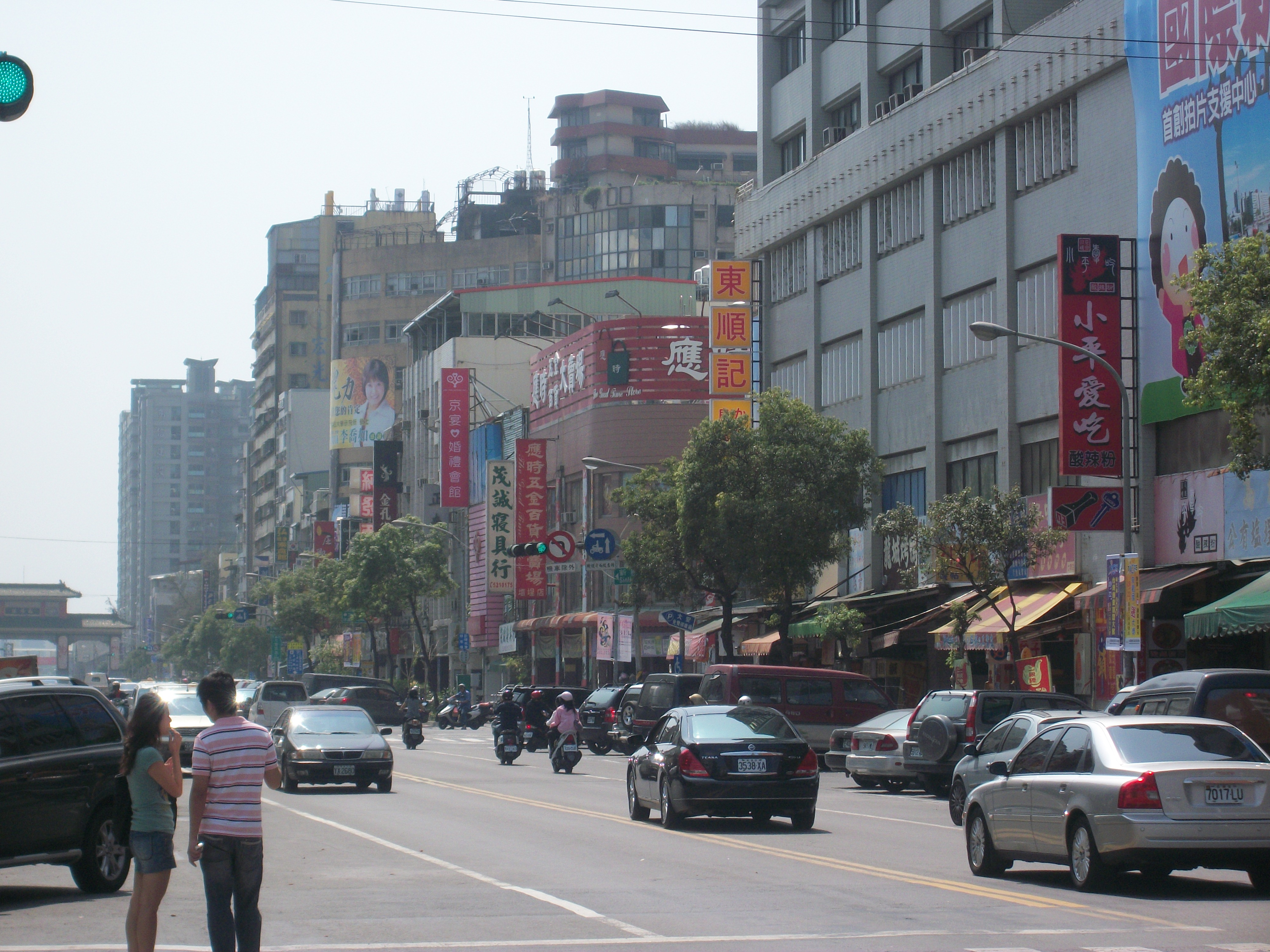 Chi-Shian 3rd Road in Kaohsiung City.